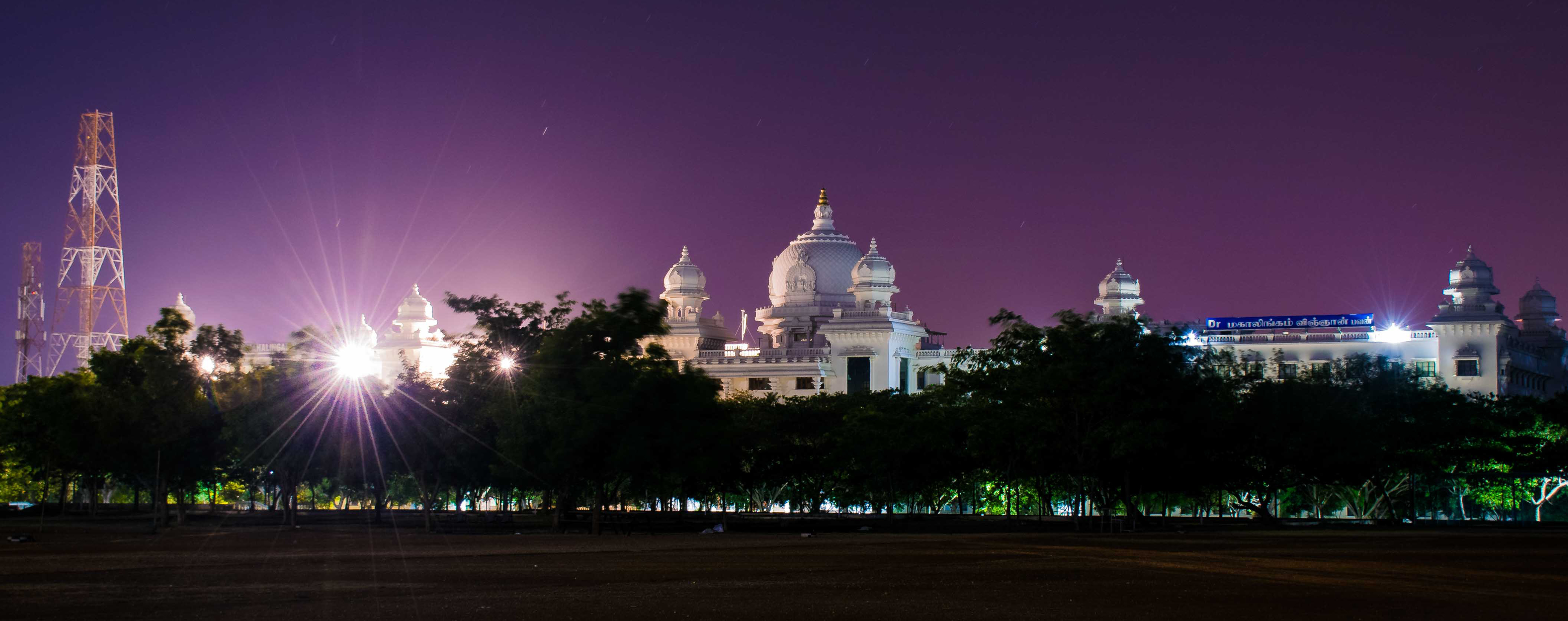 A night view at KCT from the playground